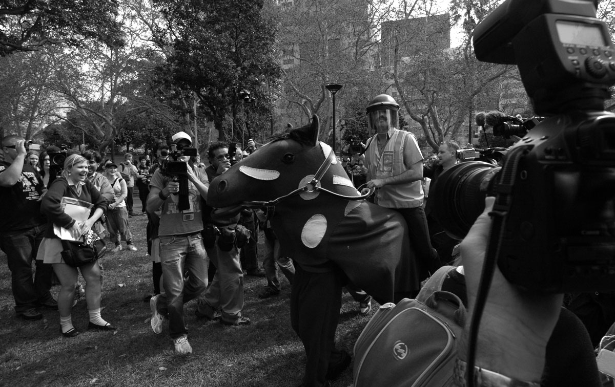 The Chaser pantomime horse stunt performed on 5 September 2007 in Sydney, Australia, performed at the APEC Australia summit. Chris Taylor is mounting a fake horse with Chas Licciardello and Julian Morrow underneath.[1] Media surround the horse.